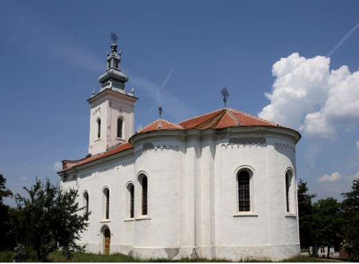 Saint Elijah Church in Boljevac